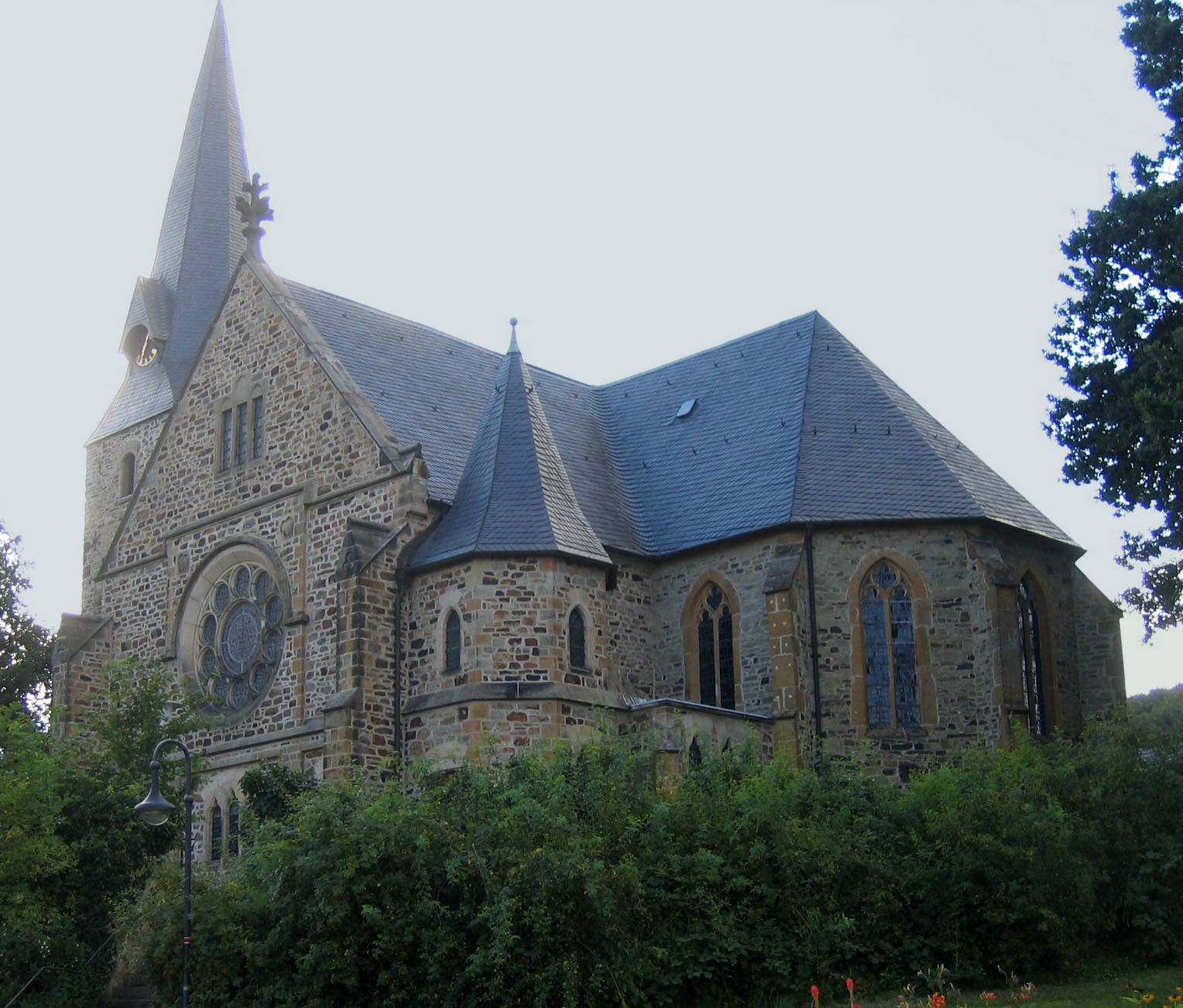 Church St. Bartholmäus in the town of Rödinghausen-Westkilver, Germany. South Side